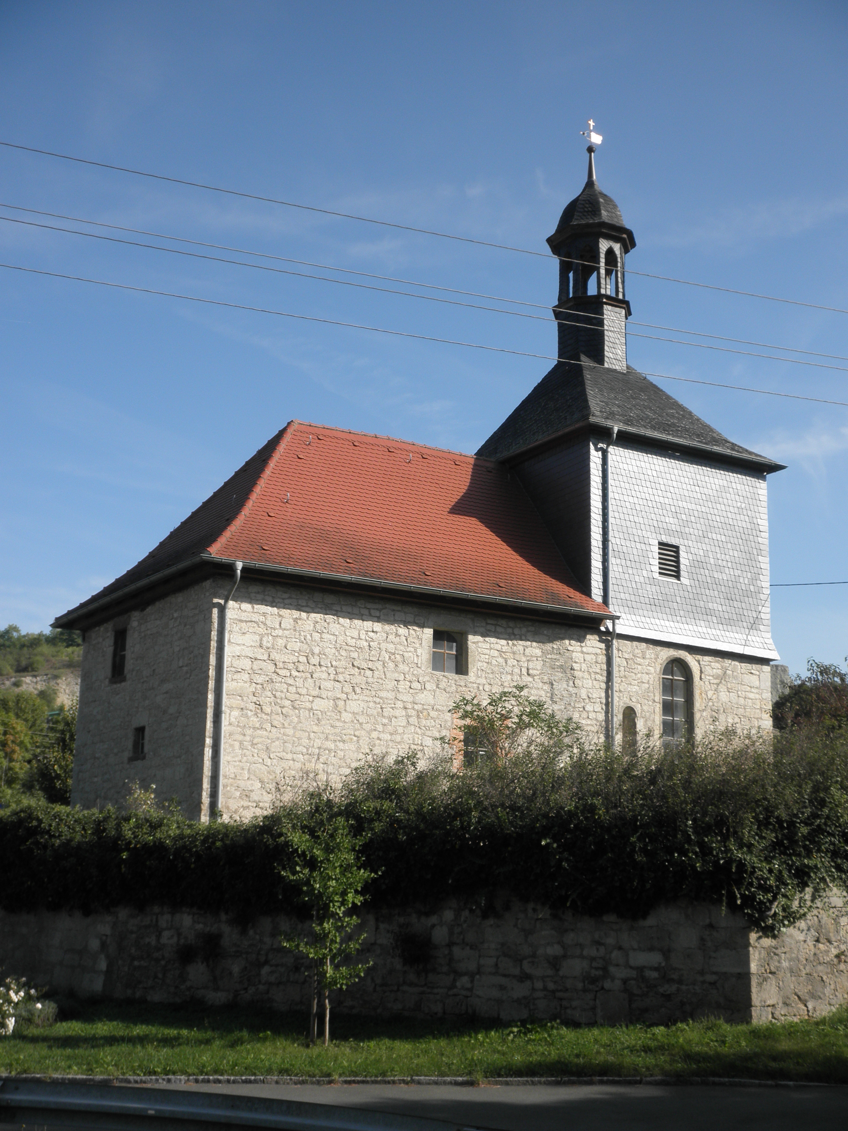 Church in Steudnitz in Thuringia